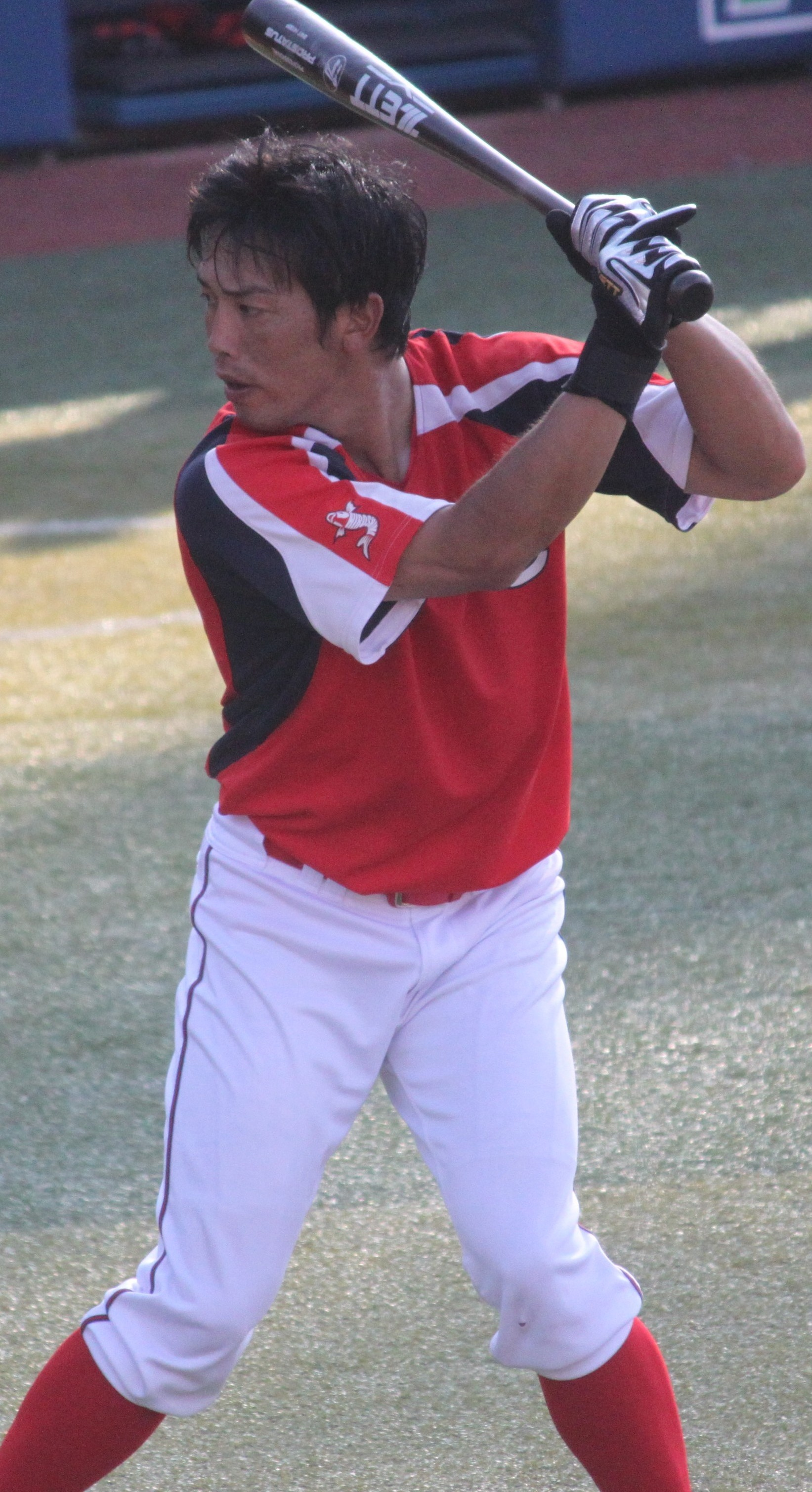 Sohichiro Amaya, outfielder of the Hiroshima Toyo Carp, at Yokohama Stadium.